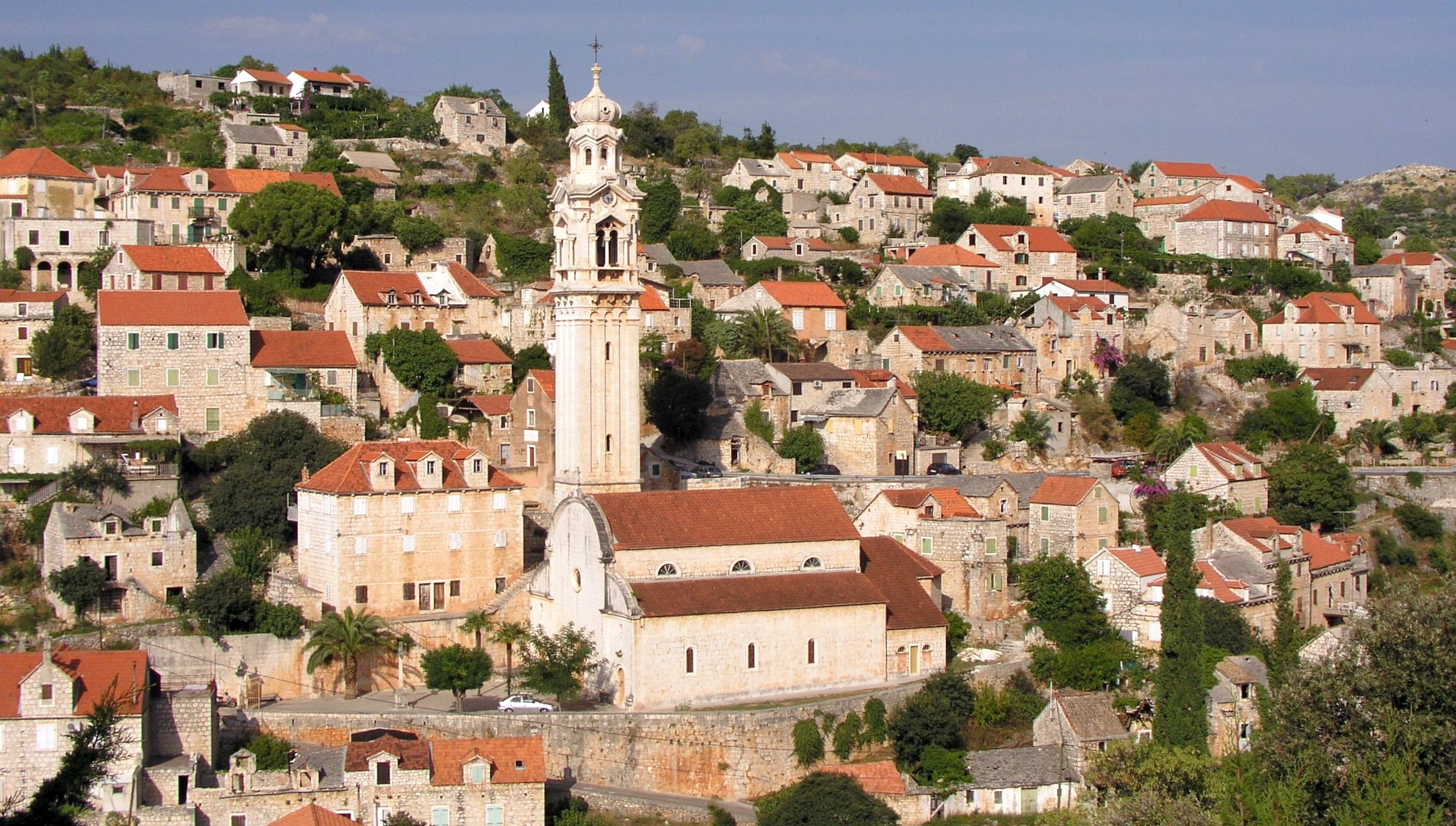 Ložišća Village, Brač Island, Croatia